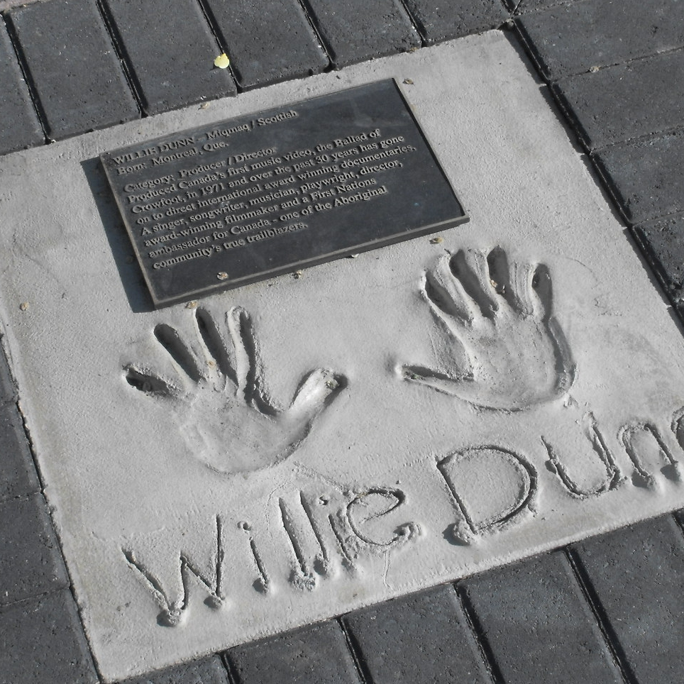 Hand prints of film producer and director Willie Dunn, Aboriginal Walk of Honour, Edmonton, Alberta